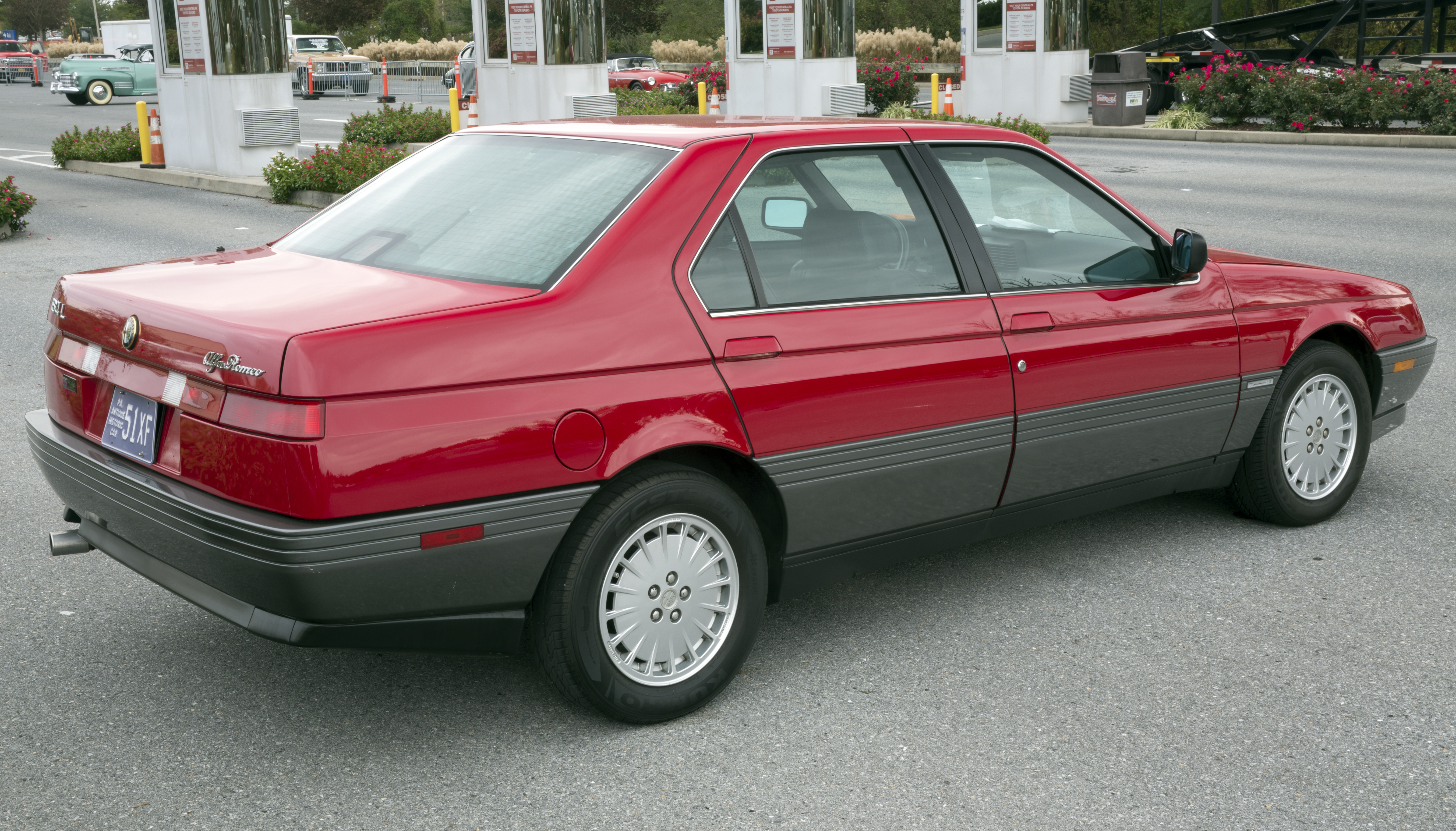 A 1991 Alfa Romeo 164L in the Car Corral at Hershey 2019.